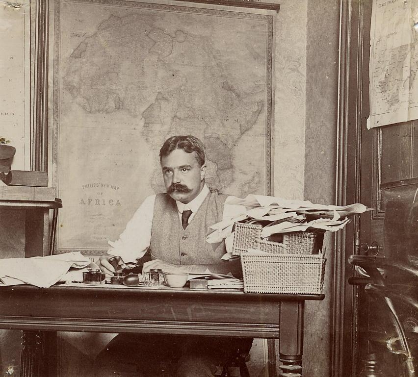 Edmund Dene Morel (1873-1924) politician, author, journalist. Founder of the Congo Reform Association, Labour MP for Dundee 1922-1924. IMAGELIBRARY/1355 Persistent URL